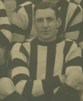 Photograph of Norm Oliver in 1910